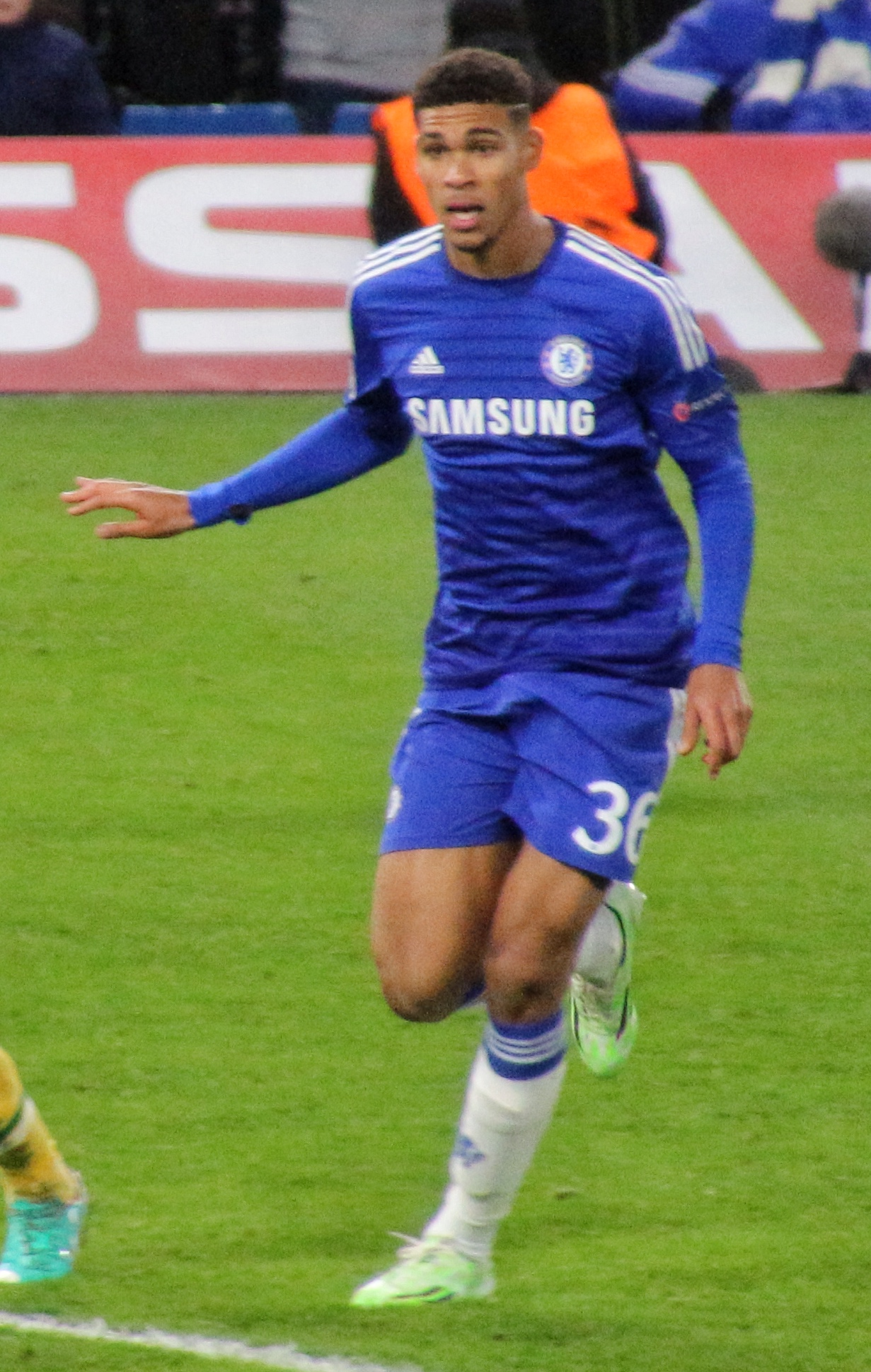 Chelsea 3 Sporting Lisbon 1